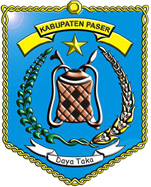 Lambang (Coat of Arms) of Kabupaten (Regency) Paser, Provinsi Kalimantan Timur (East Kalimantan Province, on island Borneo/Kalimantan in id), Indonesia